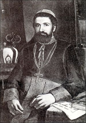 Ioan Inocenţiu Micu-Klein OSBM (1699–1768), Bishop of the Diocese of Făgăraş of the Romanian Greek Catholic Church from 1730 to 1751